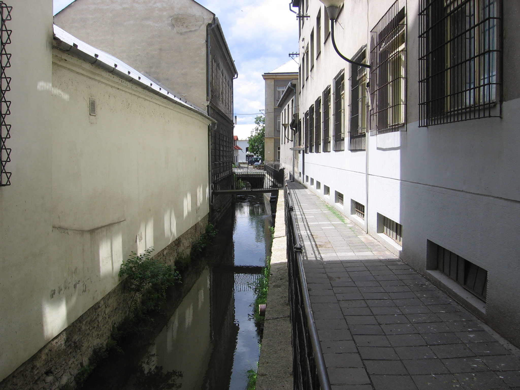 Former mill-race „Nečíz“ in Litovel (Czech Republic)